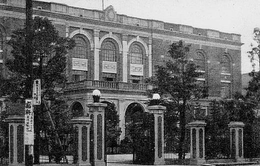 Rikken Seiyukai(Friends of Constitutional Government) Headquaters